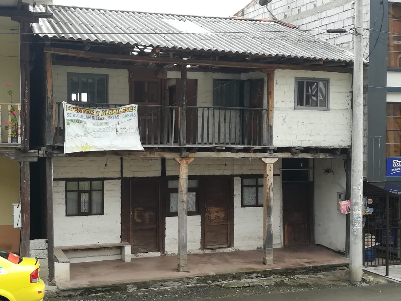 Paccha casas arquitectura centro de la parroquia